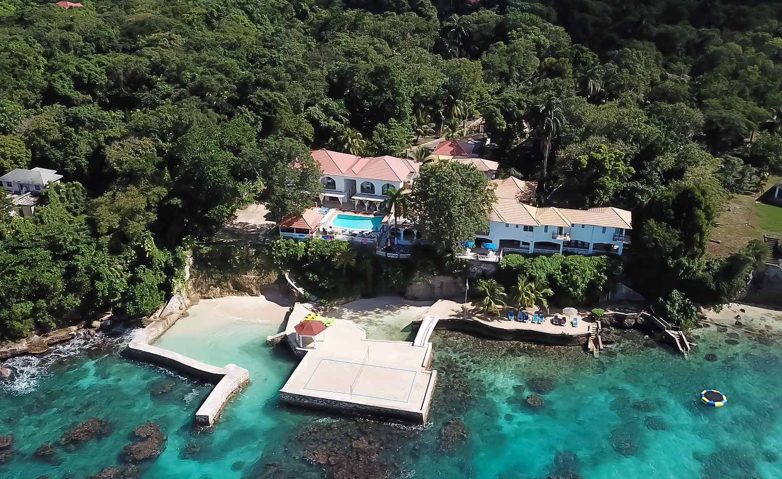 This is an aerial photo of Golden Clouds taken using a drone